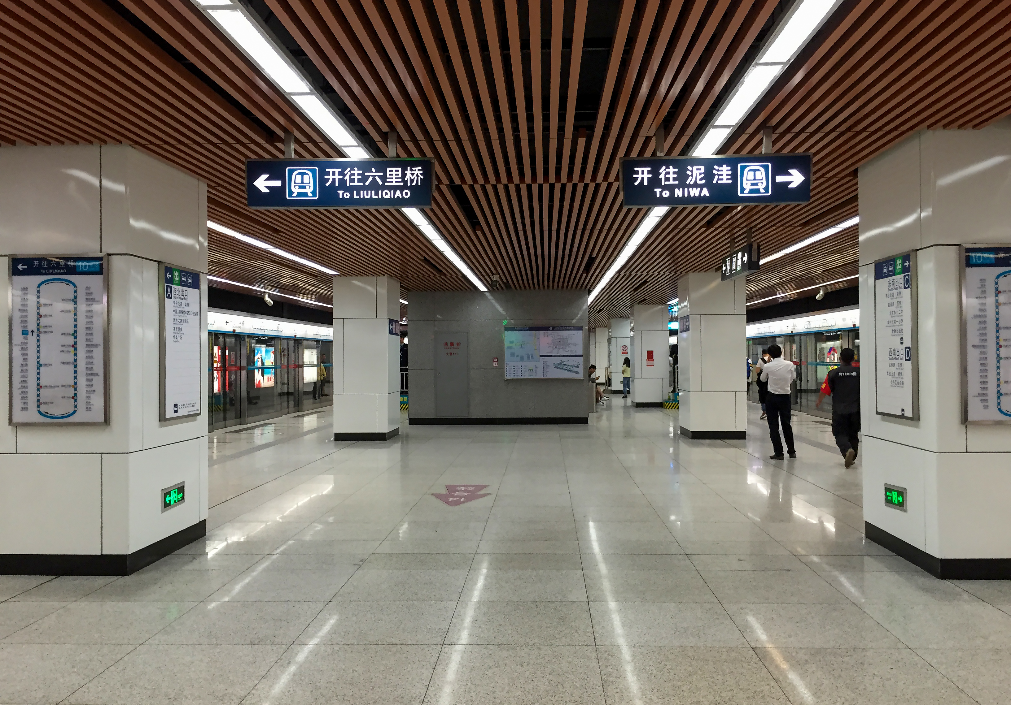 Not that crowded after 18:30.